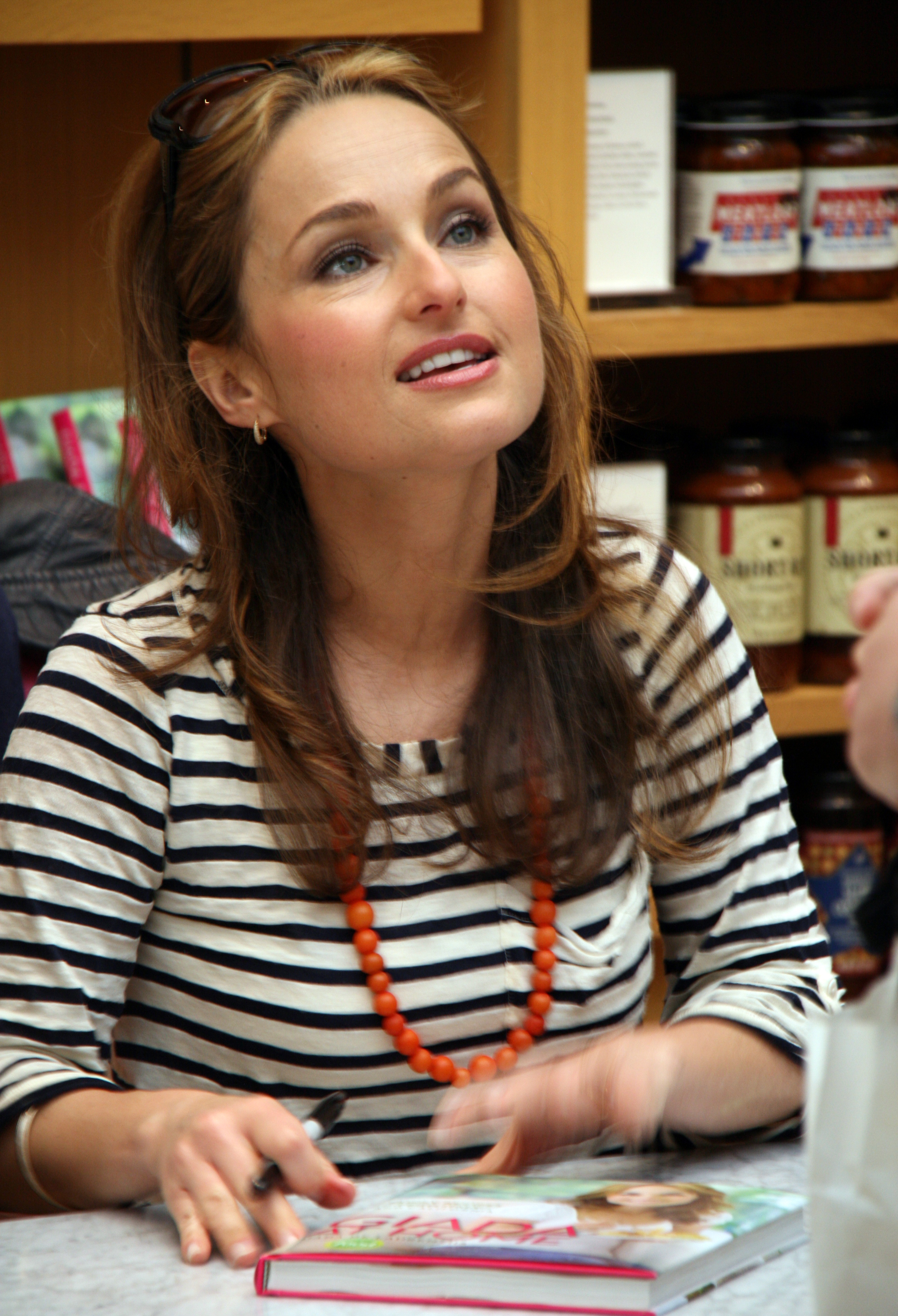 Giada De Laurentiis at a book signing at Williams-Sonoma at the Bellevue in Philadelphia, Pennsylvania, April 22, 2010